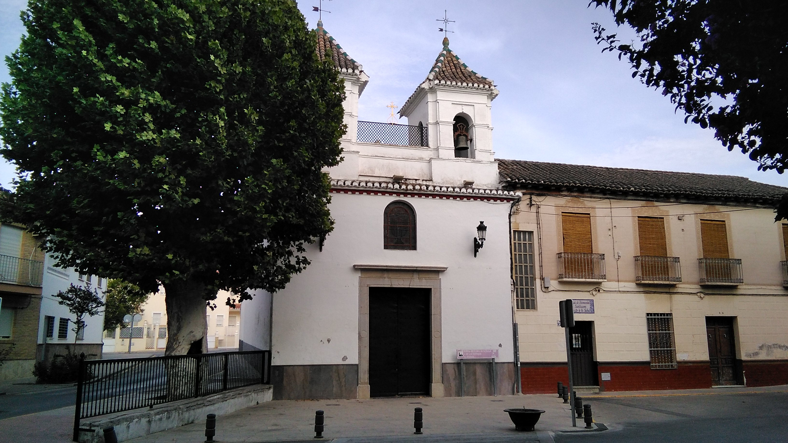 Hermitage of Christ of Health in Santa Fe, Spain.